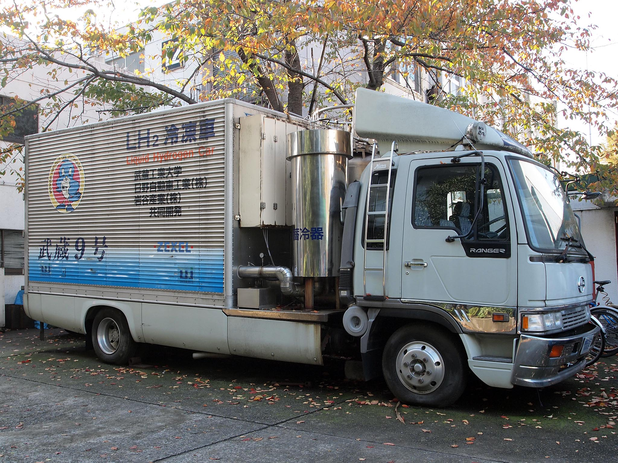 Musashi 9, Liquid hydrogen truck by Musashi Institute of Technology (Tokyo City University). Base car: Hino Ranger